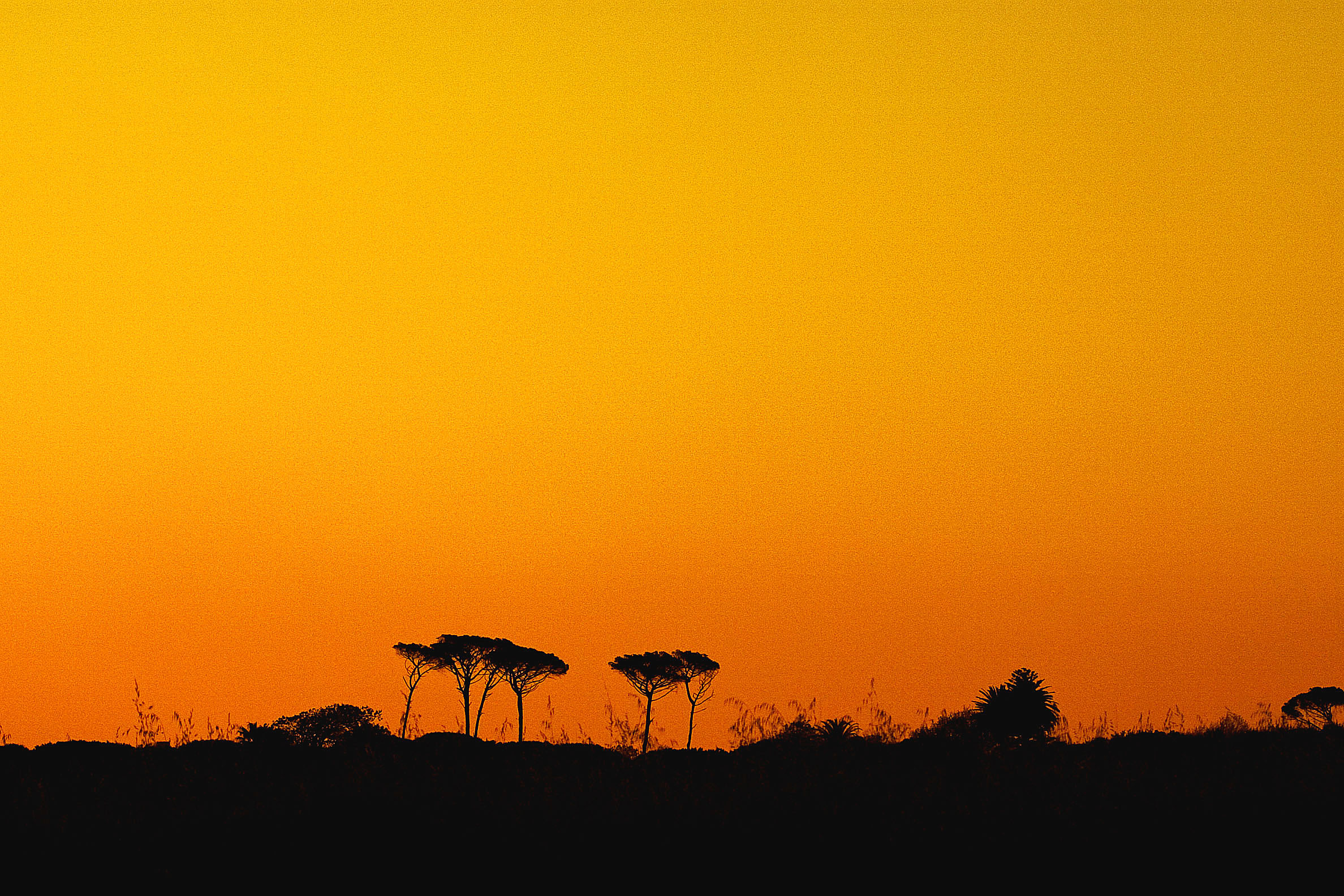 Wiki Loves Monuments South Africa. Photograph of Rondebosch Common, Rondebosch,Western Cape. SAHRA unique ID 9/2/111/0102